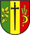 Coat of arms of Schmitt